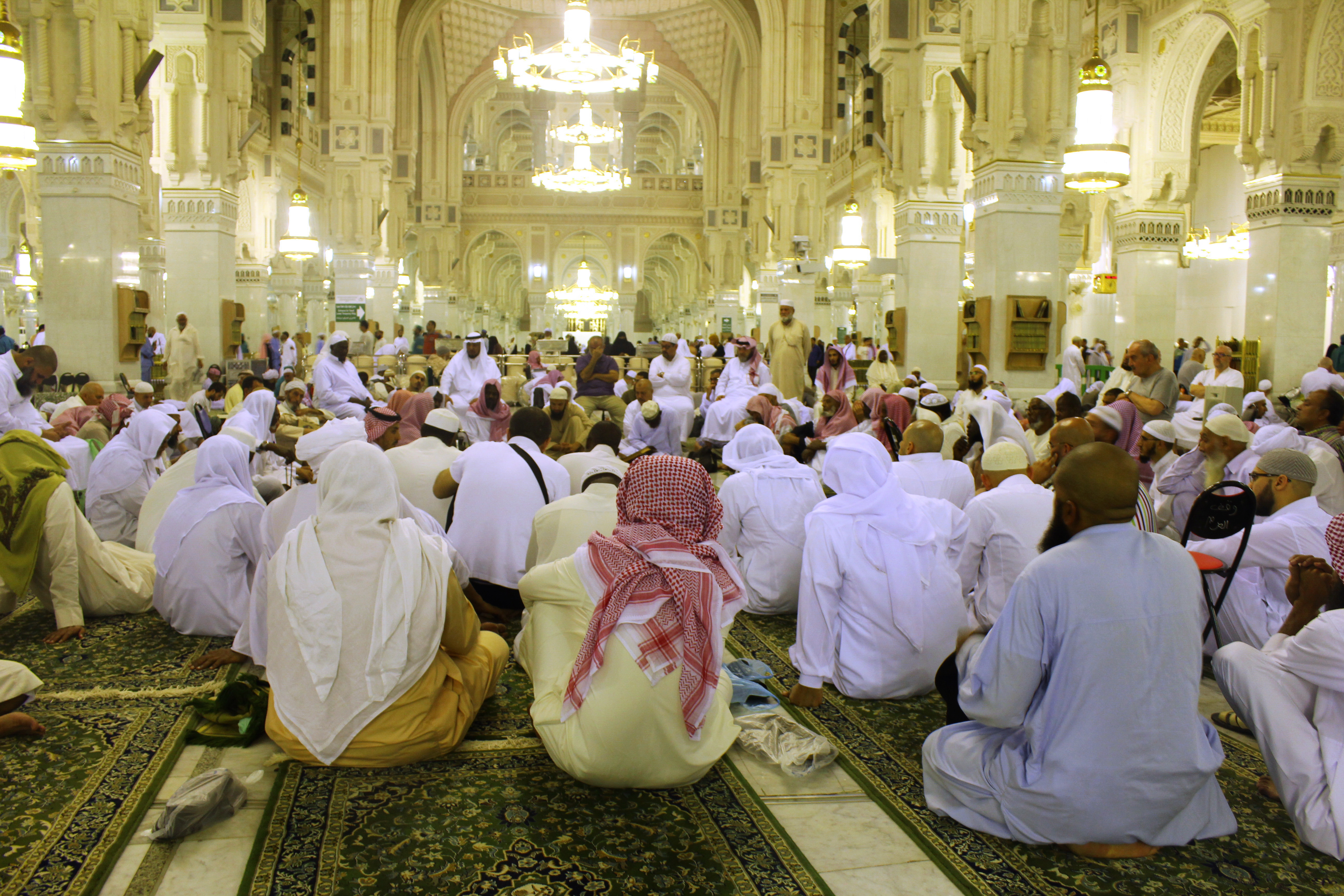 A halaqa is underway at the western part of the main complex of holy Masjid al-Haram in Makkah, Saudi Arabia.